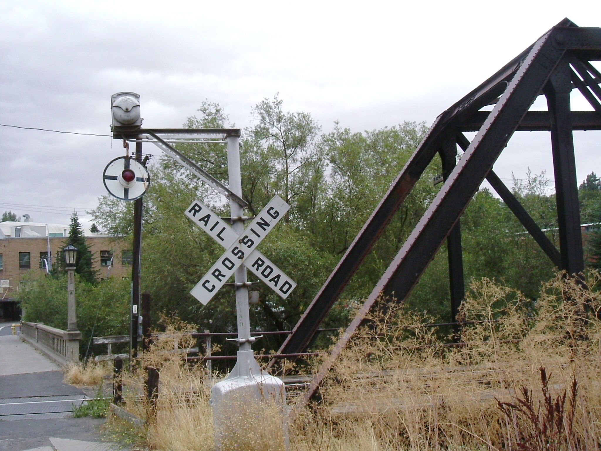 Wigwag at a level crossing on Kamianan street, Pullman, Washington state.